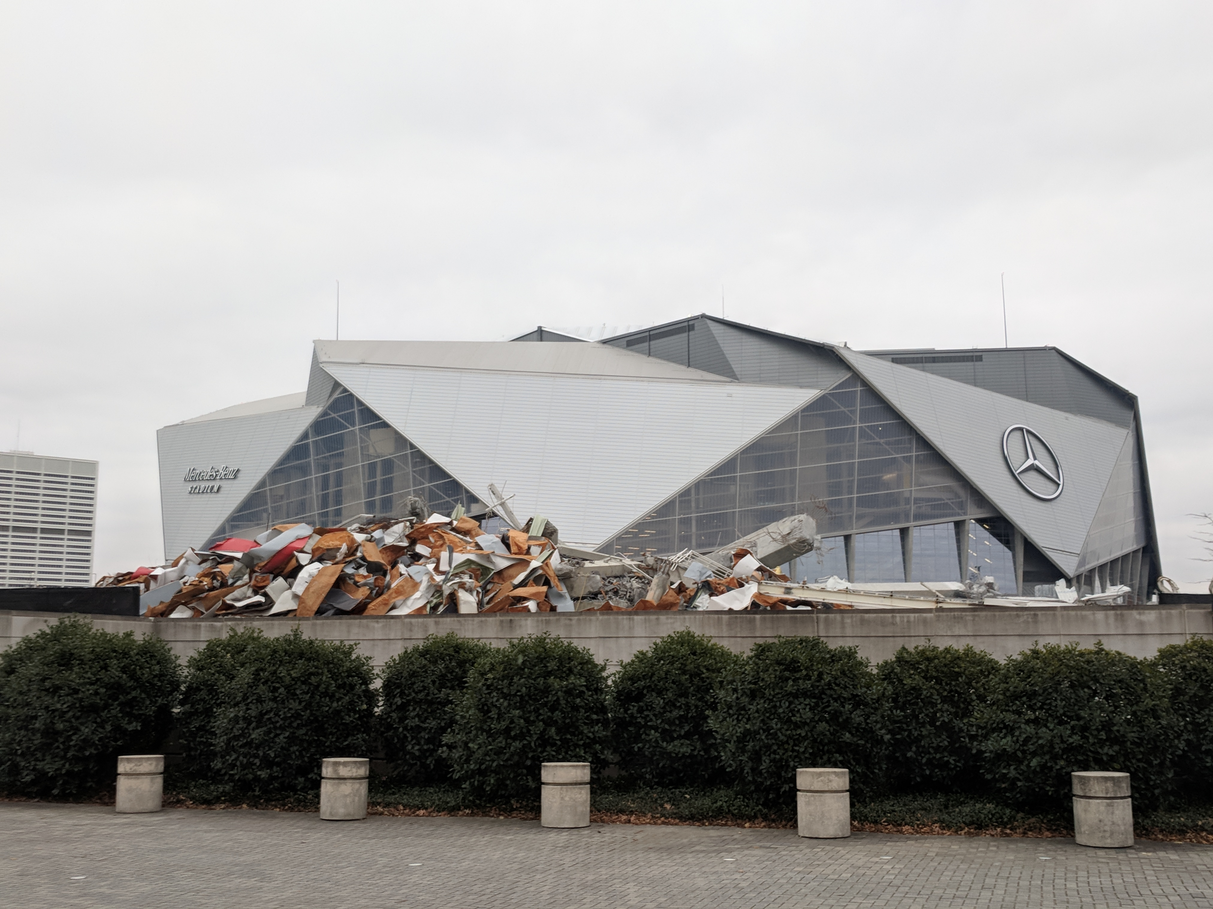 Georgia Dome remains, with its replacement, the Mercedes-Benz Stadium in the background